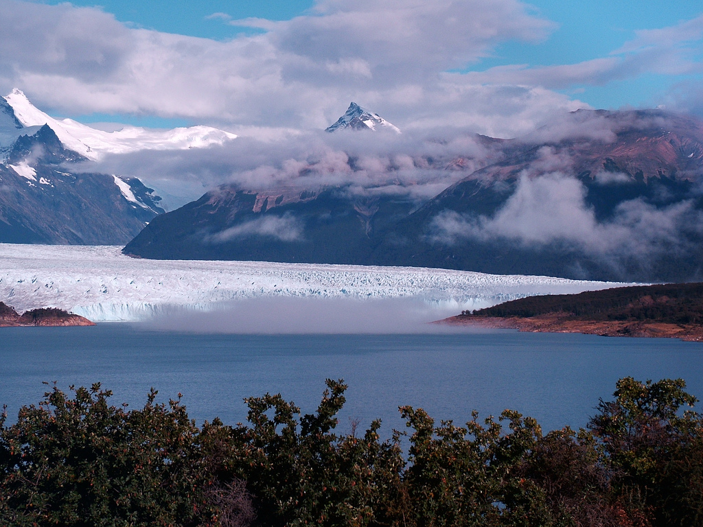 Perito Moreno Glacier, in Los Glaciares National Park, southern Argentina